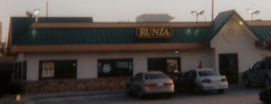 Runza Restaurant, Papillion, Nebraska